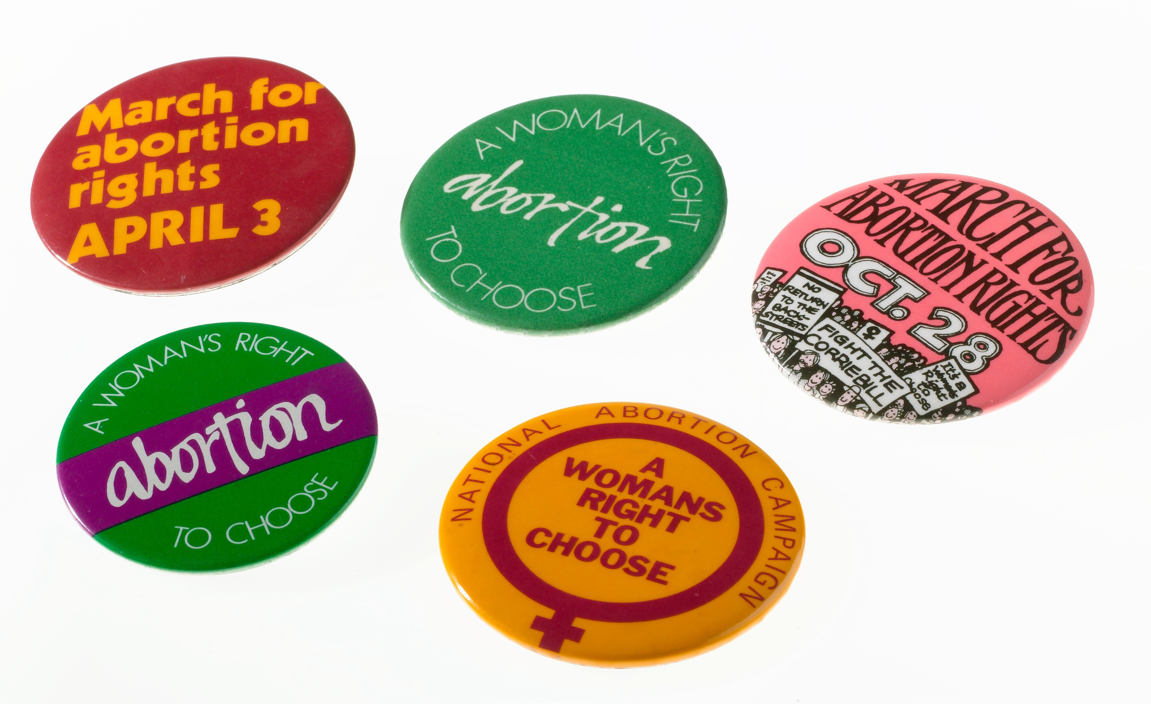 These badges protest a woman’s right to choose to have an abortion. The National Abortion Campaign (NAC) was set up in 1975. It protested against proposed changes to the 1967 Abortion Act in Britain. Its members saw abortion becoming the campaigning rights issue it continues to be today. The Act stated an abortion must be performed by a registered medical practitioner. The Act also stated two medical practitioners must agree the abortion is necessary if there is a risk to the physical or mental health of the mother or if the child would be severely mentally or physically handicapped.